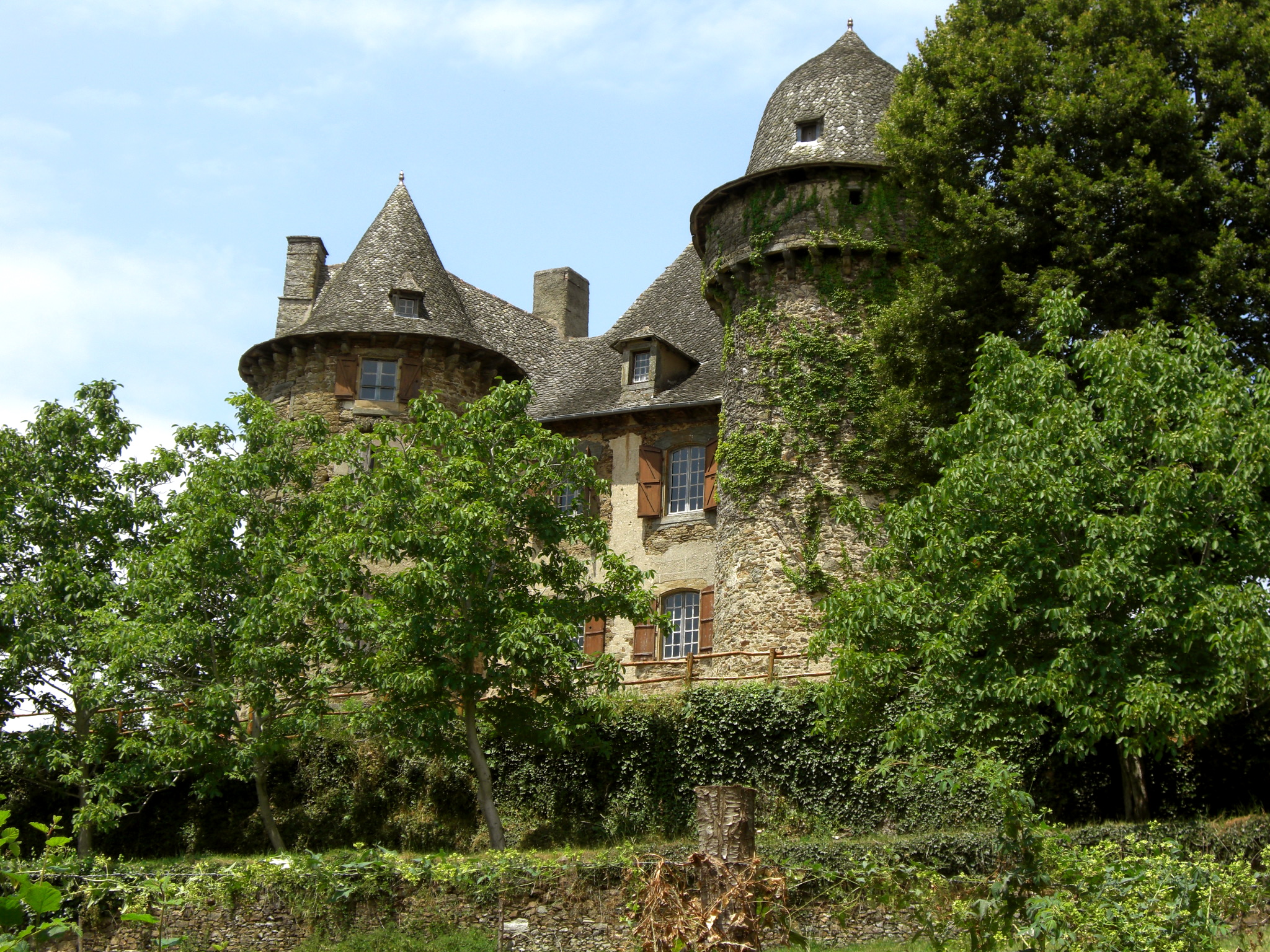 Chateau de Selves, La Vinzelle, Aveyron, France